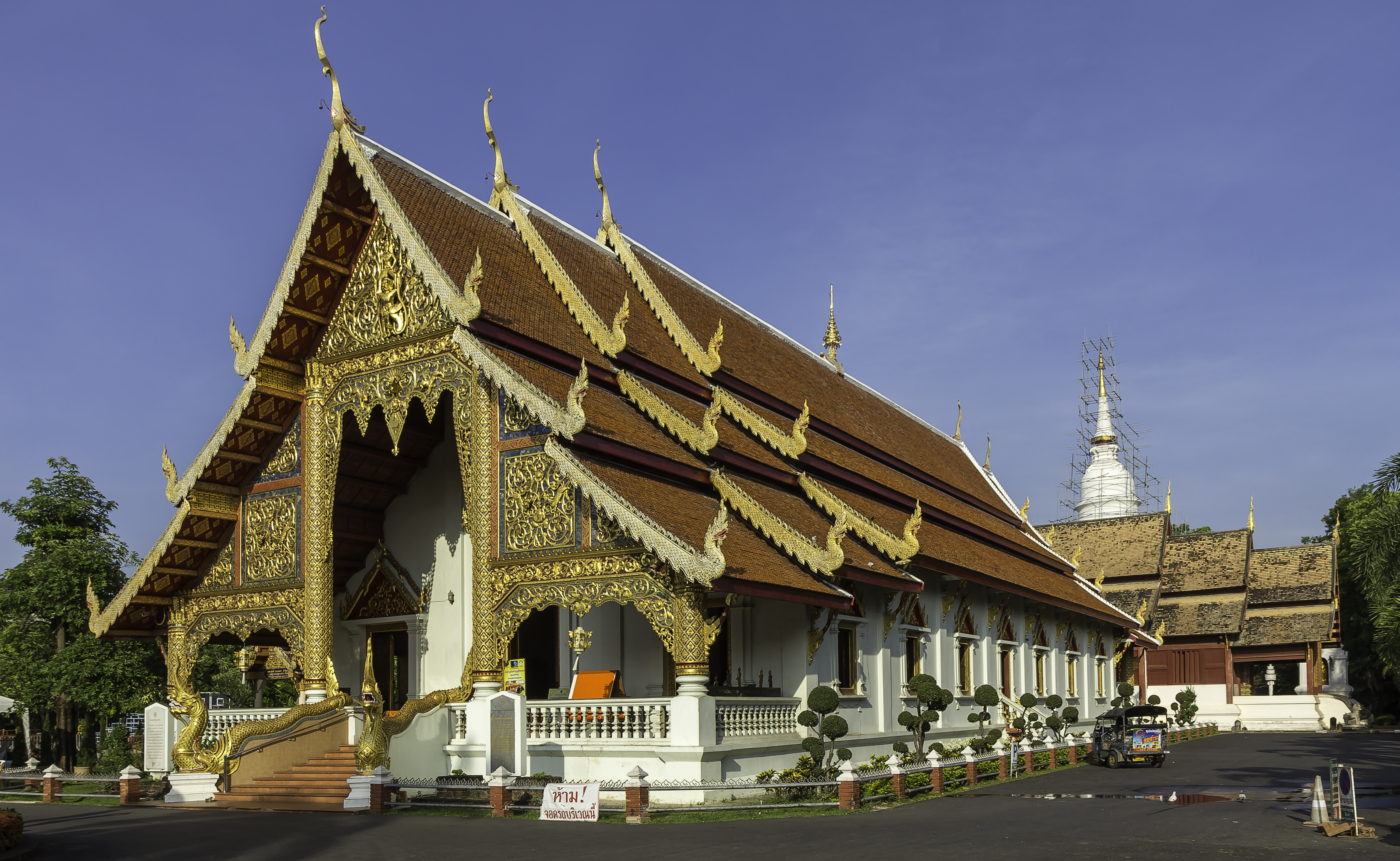 Wat Phra Singh, Chiang Mai